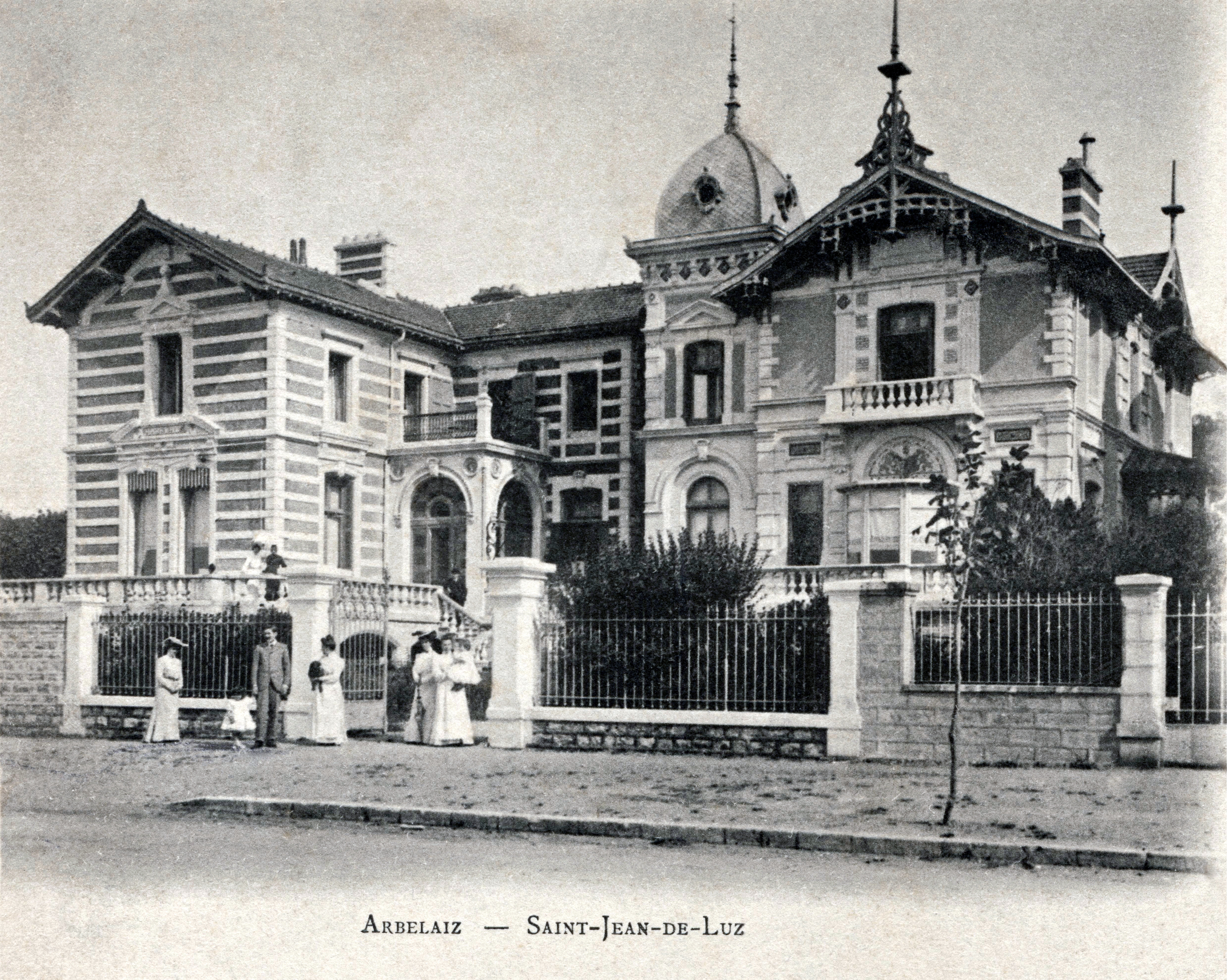 Ramón de Olazábal and other members of the Olazábal family stand in front of Villa Arbelaiz, the residence in exile of Tirso de Olazábal, Count of Arbelaiz. Saint-Jean-de-Luz, France.